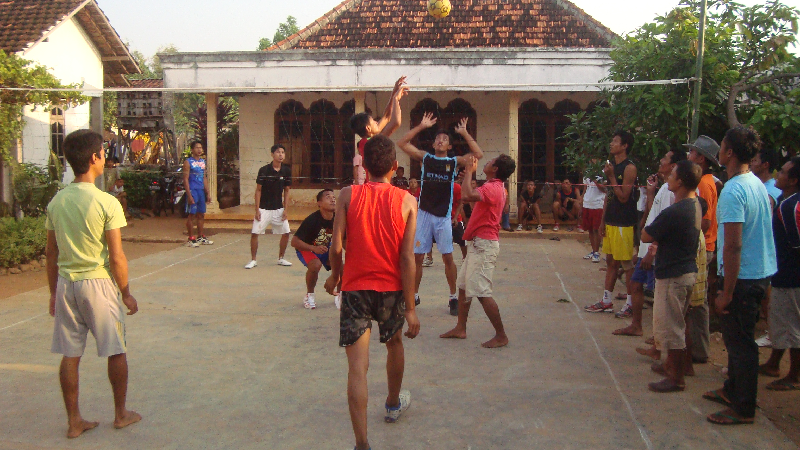 Kegiatan 17 Agustusan - Voli Putra